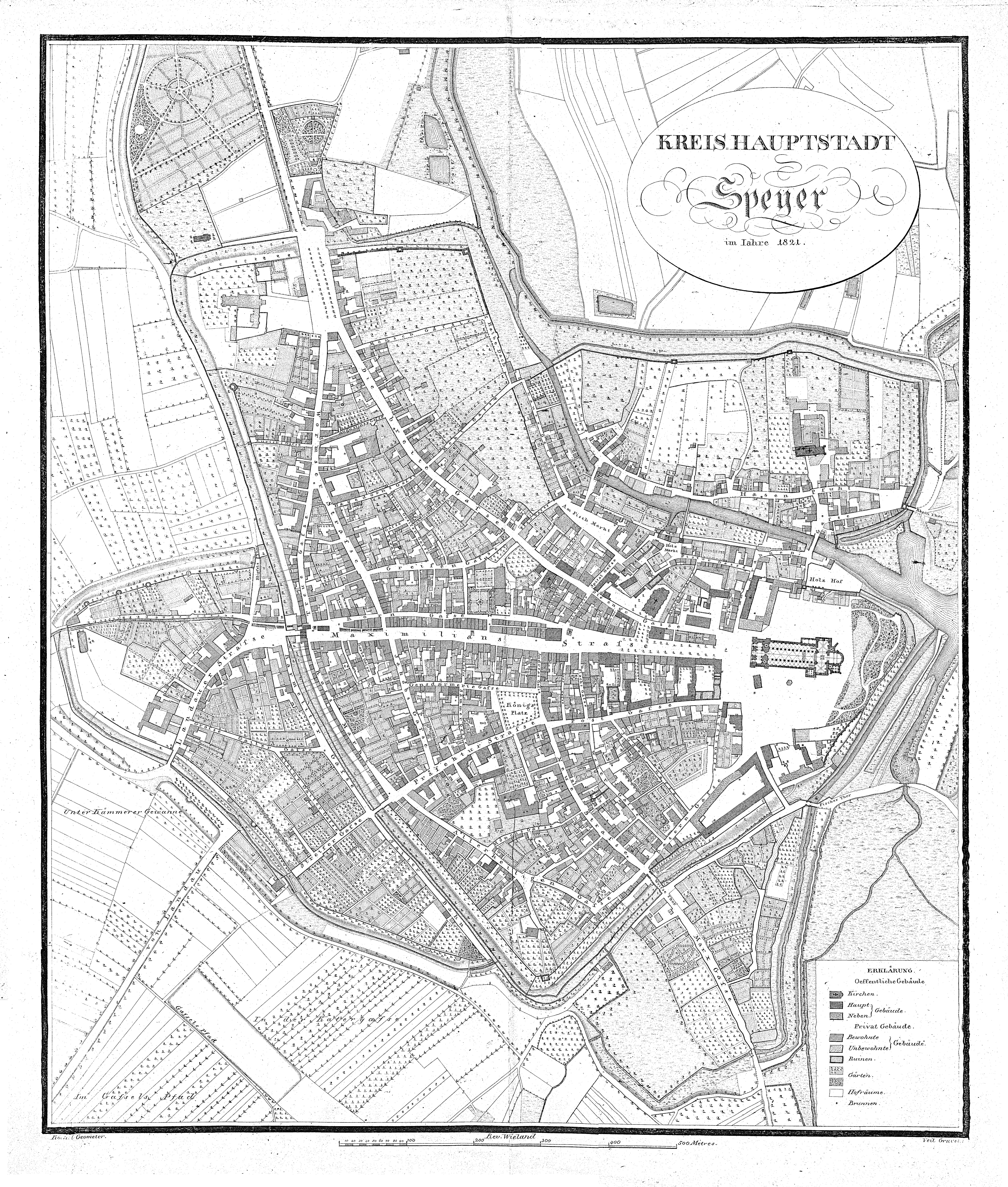 Old Map of Speyer